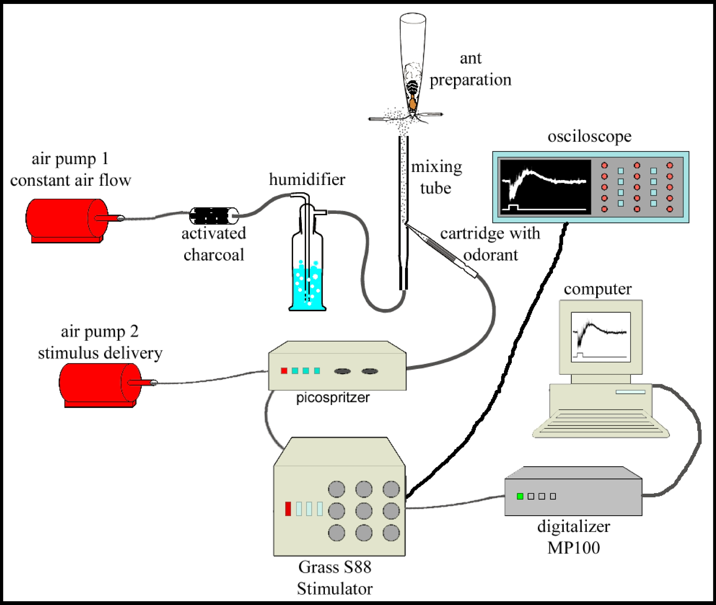 Mounting of a electroantennogram measuring brain electrical activity in ants.